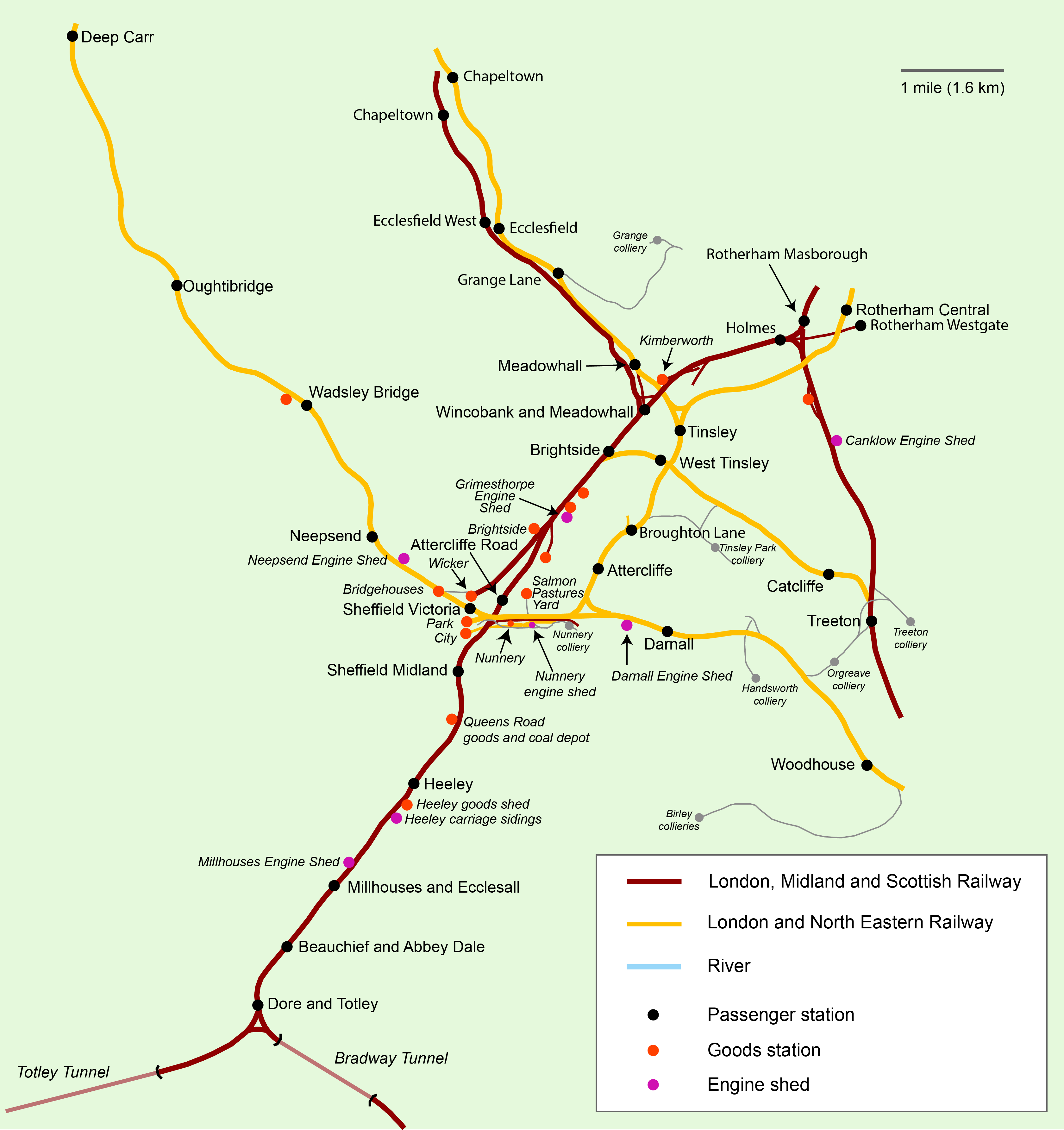 Railways in Sheffield, England as they existed in the Post-grouping era (c1930).